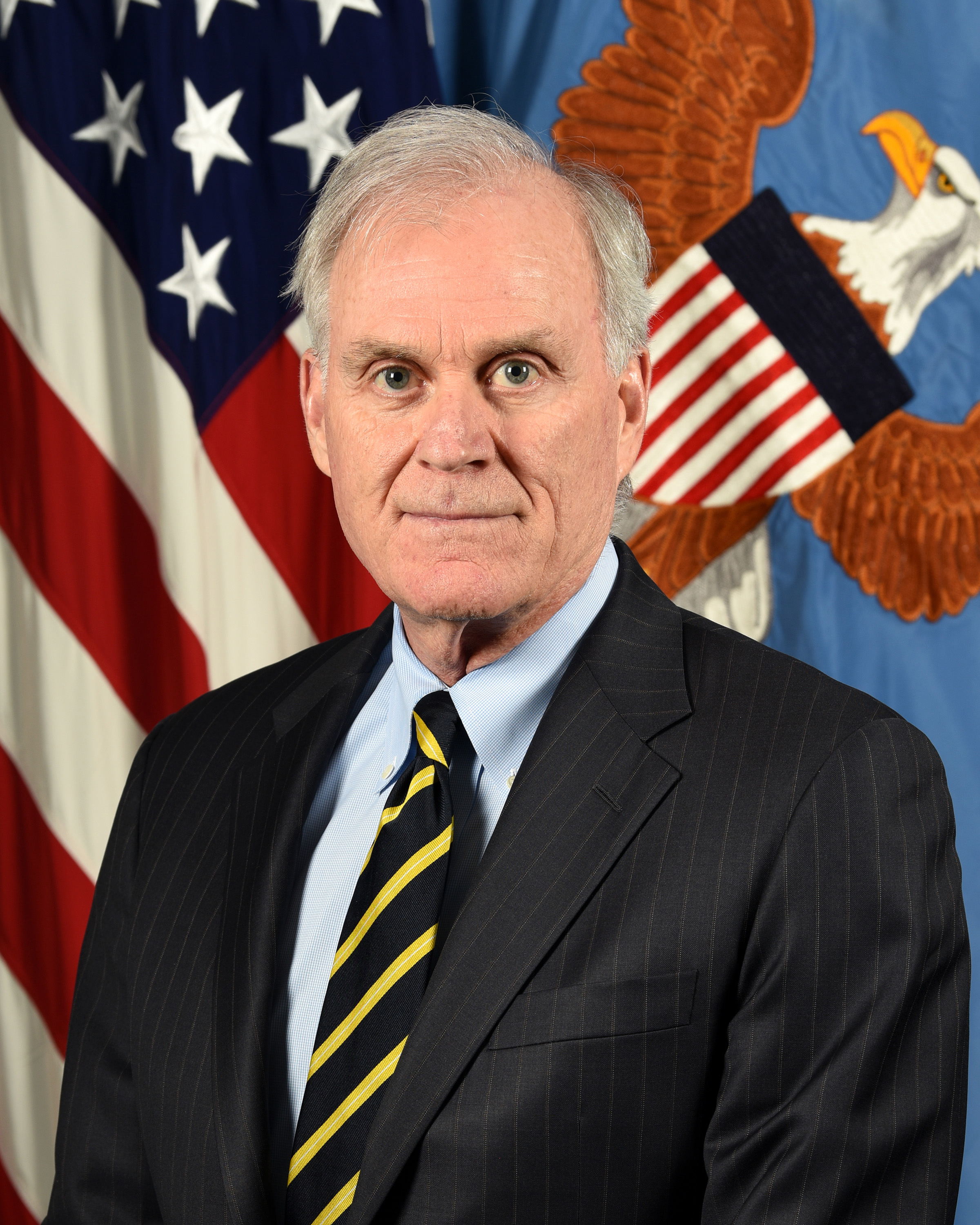 Mr. Richard V. Spencer, Acting Secretary of Defense , poses for his official portrait in the Army portrait studio at the Pentagon in Arlington, Va, June. 25, 2019. (U.S. Army photo by William Pratt)